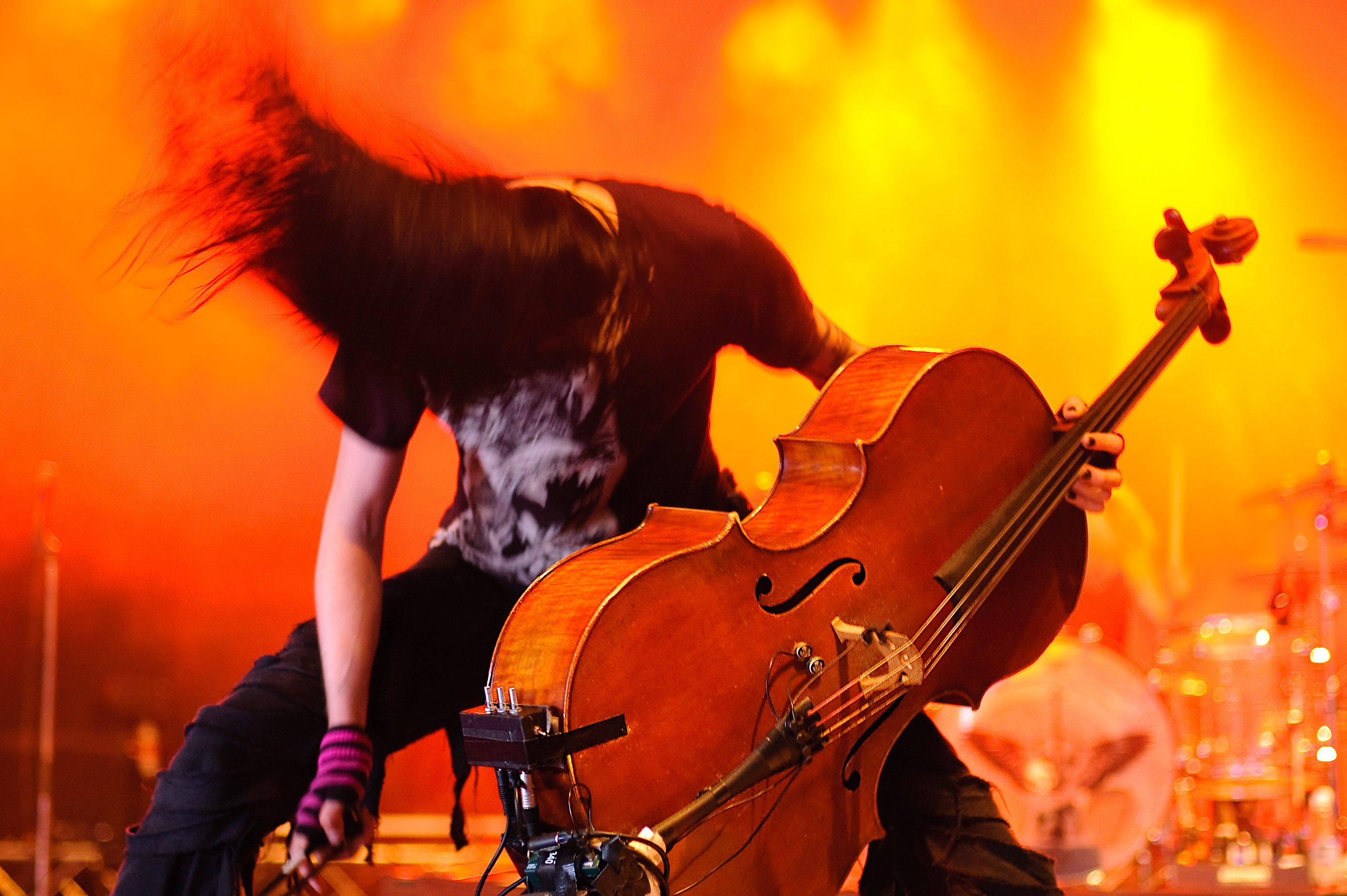 Cellist Perttu Kivilaakso of Apocalyptica performing at the 2009 Ilosaarirock festival in Joensuu, Finland. The Finnish symphonic metal band is composed of three classically trained cellists and a drummer.